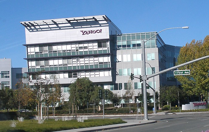 Headquarters of Yahoo! next to Mathilda Avenue in Sunnyvale, California, United States. Bân-lâm-gú: Tī Bí-kok Ka-tsiu Sunnyvale ê Yahoo tsóng-pōo. 佇美國加州桑尼維爾(Sunnyvale)的雅虎總部。